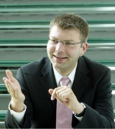 Daniel Caspary is a German member of the European Parliament.